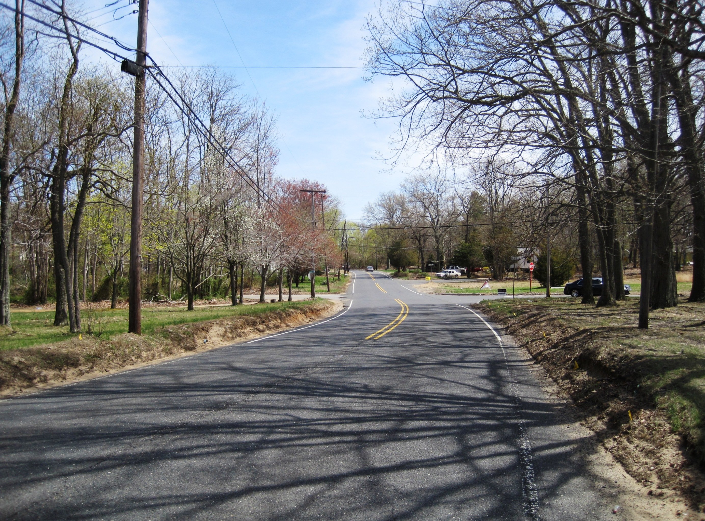 Photo of Bairdsville, New Jersey, an unincorporated community on the border of Manalapan and Millstone townships. Photo taken on southbound County Route 527A approaching Baird Road.